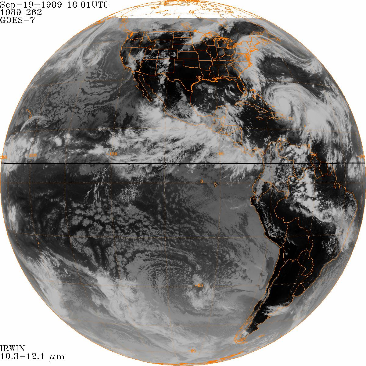 from GOES 7, Hugo and Iris